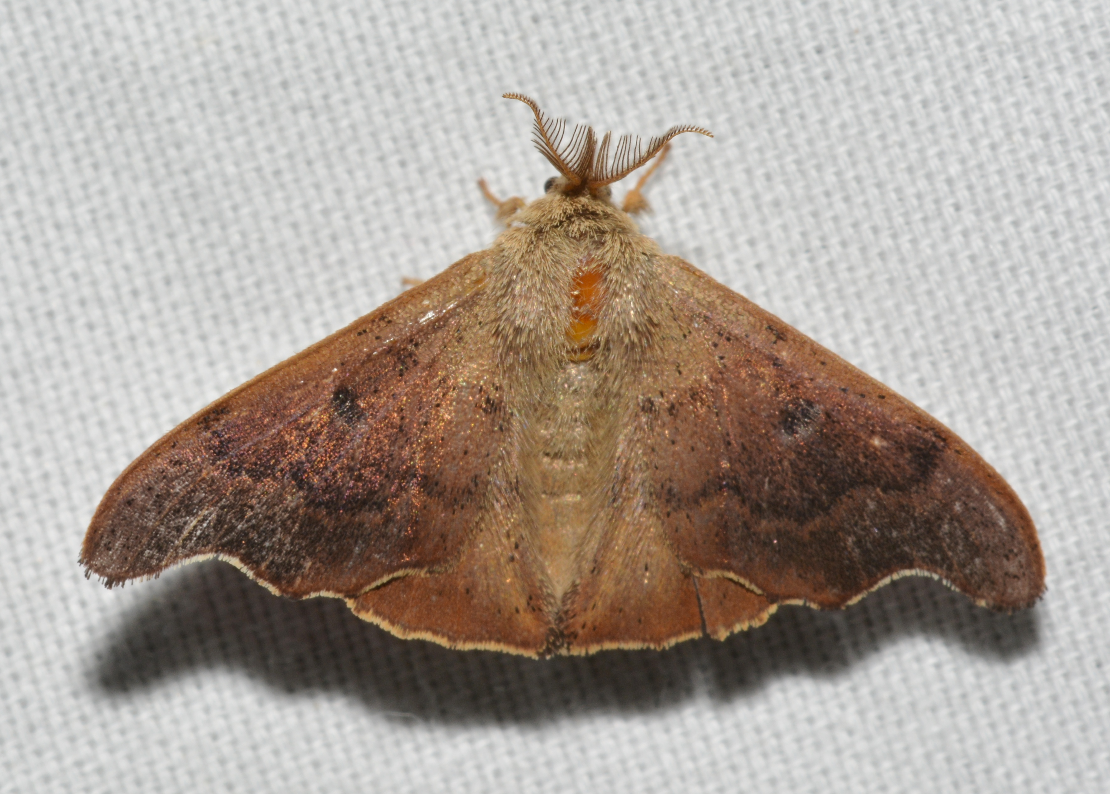 Moths found with Jill Hays, Debbie and Steve Martin in Ozark, Missouri for two nights - 6/10/16 & 6/11/16